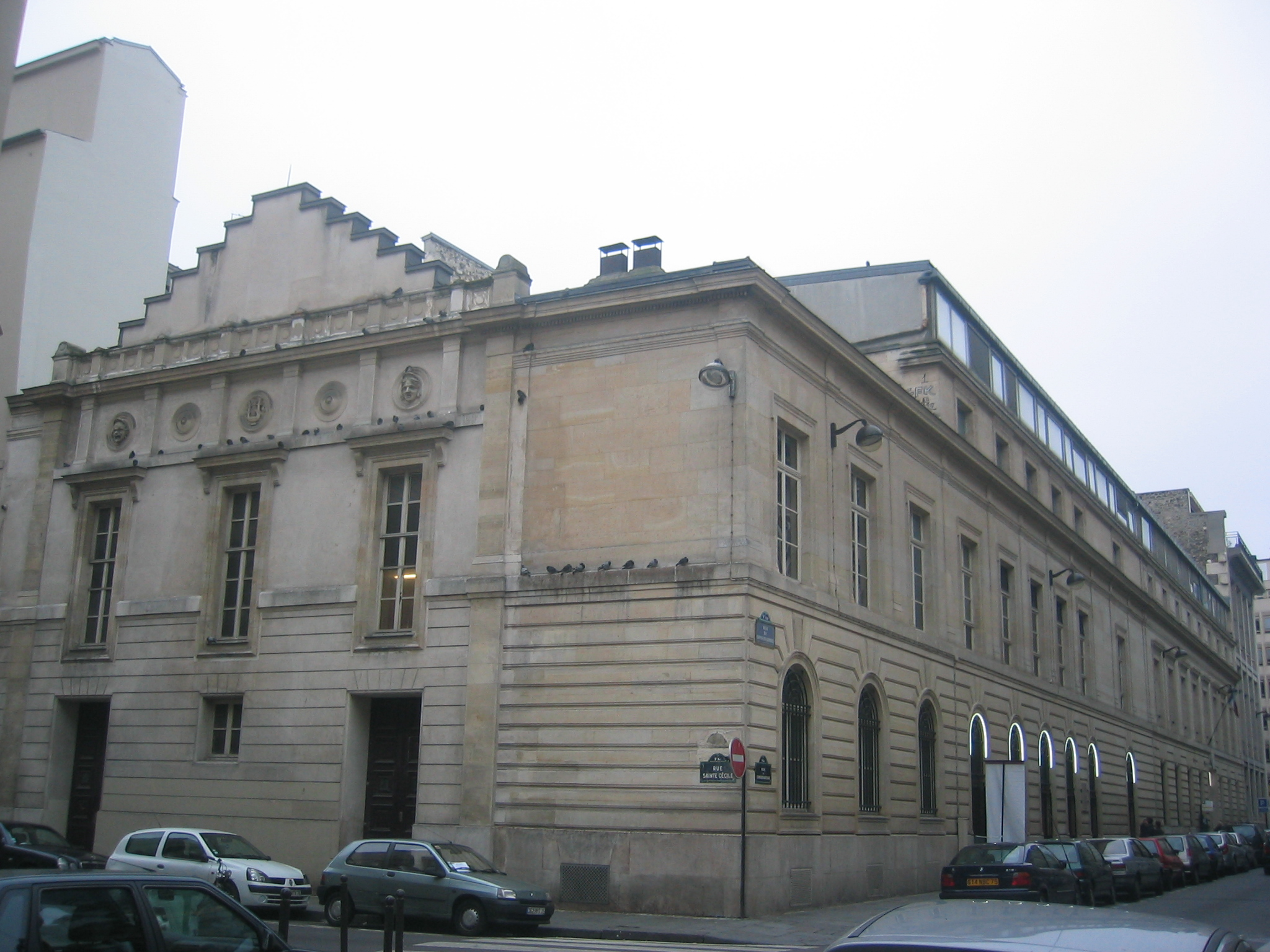 Théâtre du Conservatoire. Paris, 9ème Arrondissement, rue du Conservatoire (formerly: rue Bergère). Home to the Conservatoire de Paris until it moved to the rue de Madrid in 1911, this building is still being used as Théâtre du Conservatoire.